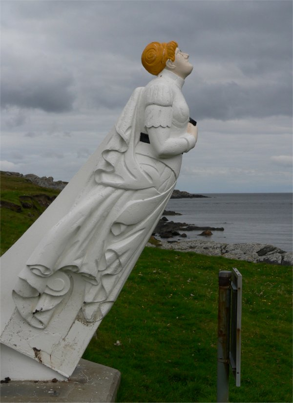 The White Wife, the remains of the ship Bohus. This ship sank in the region of Yell, Shetland (Scotland) in 1924.